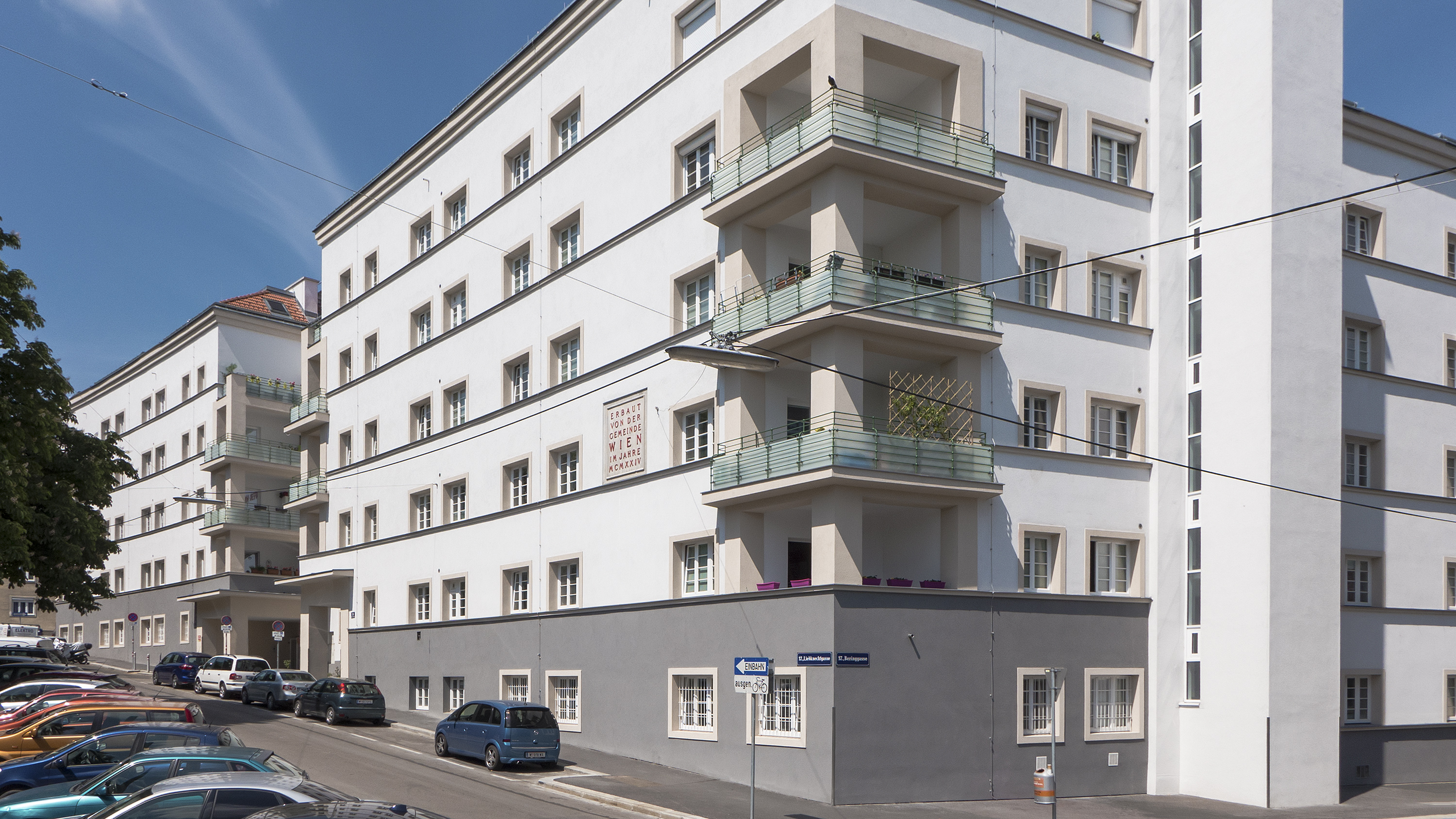 Residential building Wiedenhoferhof in Vienna 17